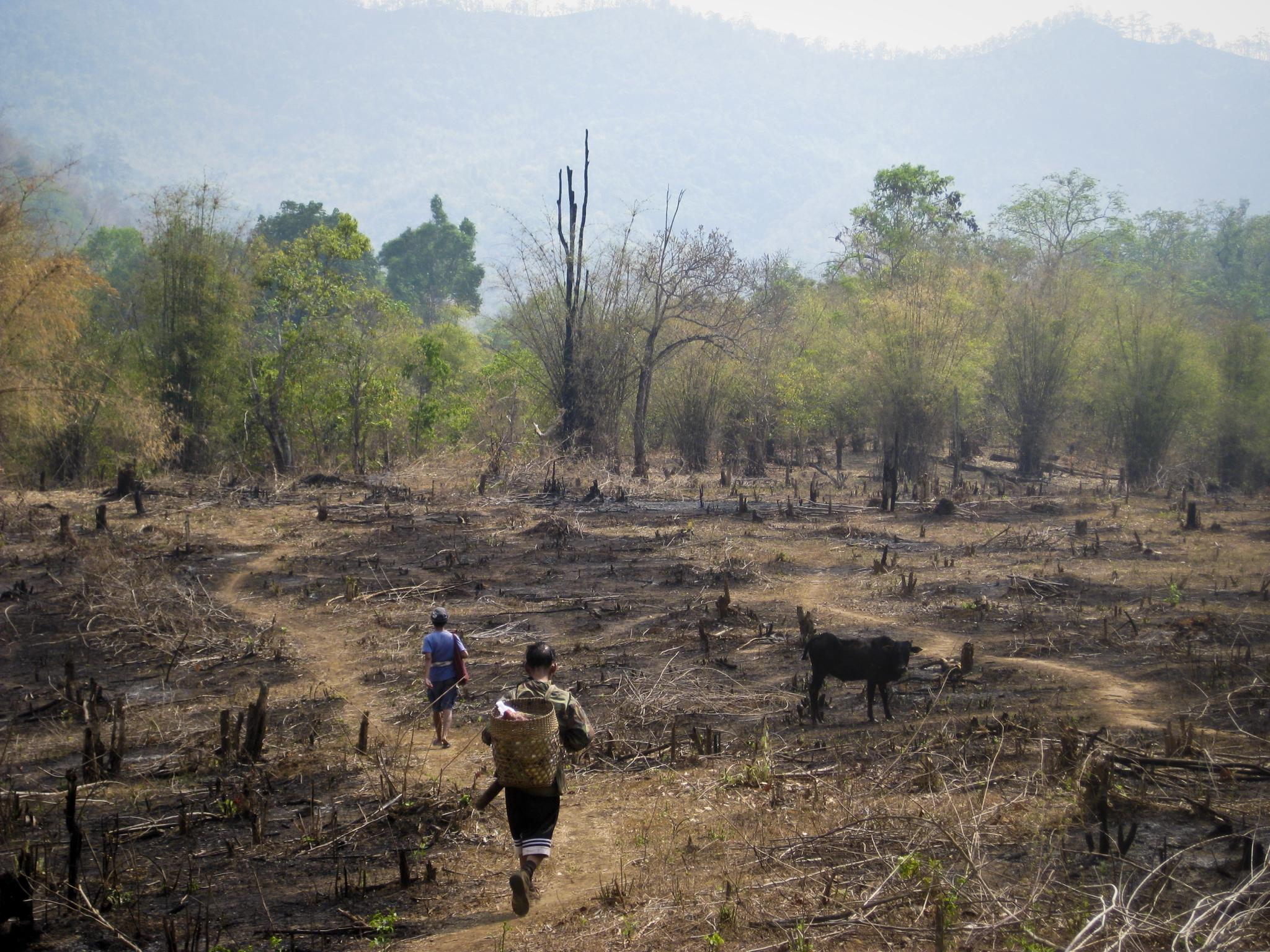 shift cultivation in Thailand, cut tree trunks and burnt field inside forests